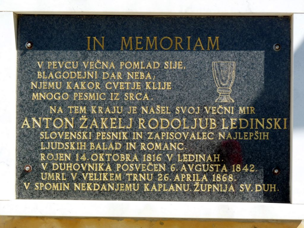 Anton Žakelj here-died plaque